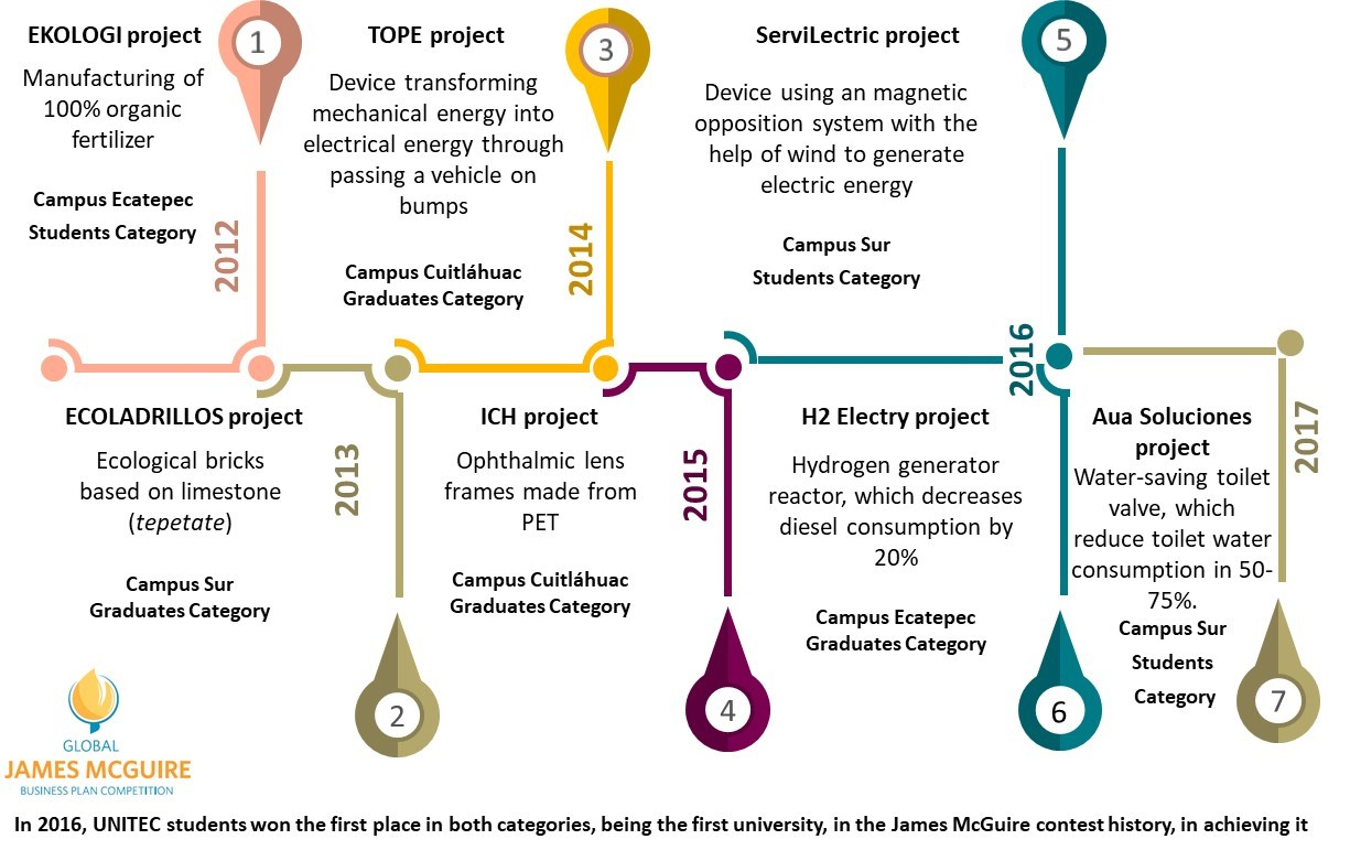 Business Incubator timline. It describes the proyects that have been incubated in the UNITEC.